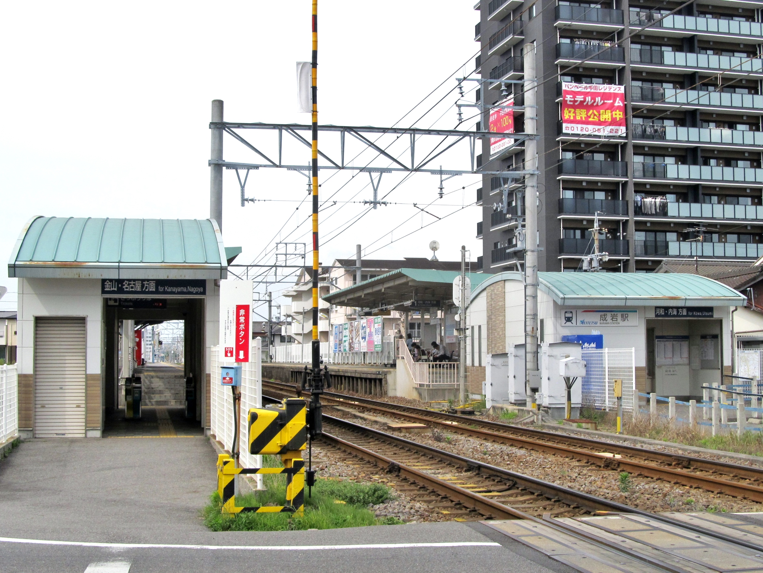 Nagoya Railroad Kowa Line Narawa Station Building